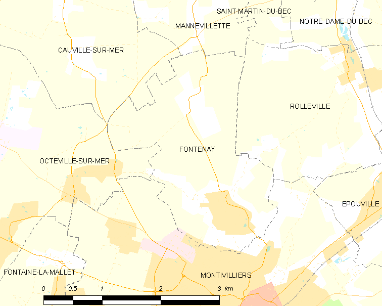 Map of French municipality Fontenay